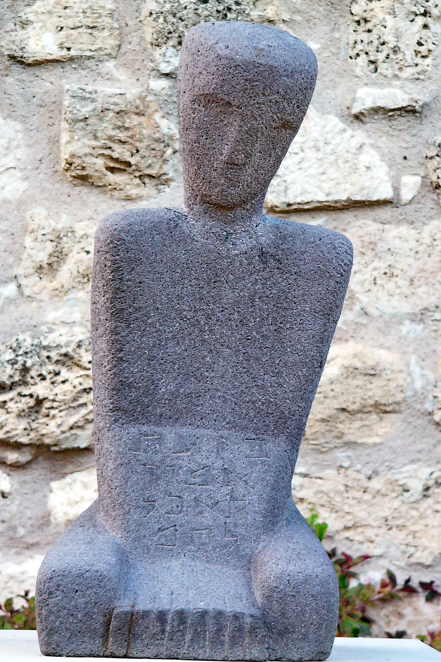 Achiam (1916–2005) Alternative names Birth name: Ahiam ShoshanyDescriptionFrench-Israeli sculptorDate of birth/death 10 February 1916 26 March 2005 / 26 February 2005Location of birth/death Beït-Gan ParisWork location Île-de-FranceAuthority control : Q1887115 VIAF: 56508417 ISNI: 0000 0003 5471 5952 ULAN: 500191992 LCCN: nr96018740 GND: 110682696 WorldCat creator QS:P170,Q1887115